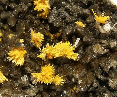 Boltwoodite, Calcite Locality: Rössing Mine, Arandis, Swakopmund District, Erongo Region, Namibia (Locality at ) Size: small cabinet, 7.1 x 5.0 x 2.2 cm Boltwoodite on Calcite Freestanding, 3-dimensional sprays of fine boltwoodite xls to 8mm make this a superb species specimen, but also overall its quite unusually aesthetic. Rare in this quality, boltwoodite comes at its best from this uranium mine.